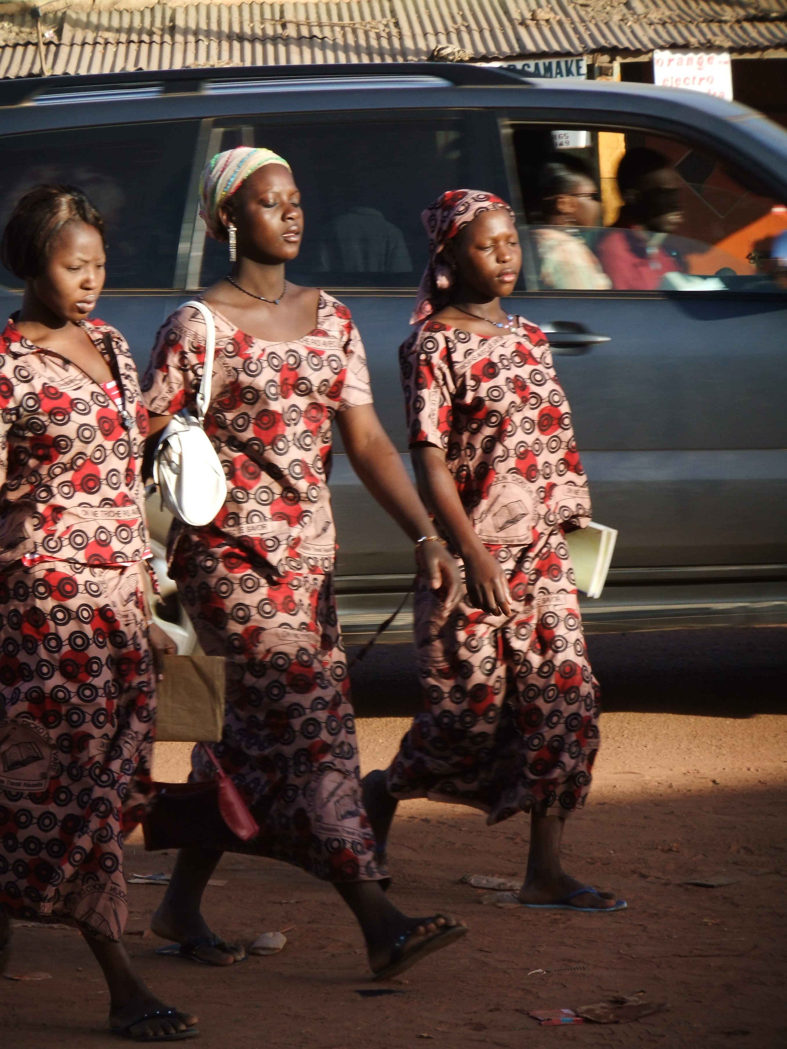 Sevare, Mali This is an image of "African people at work" from Mali